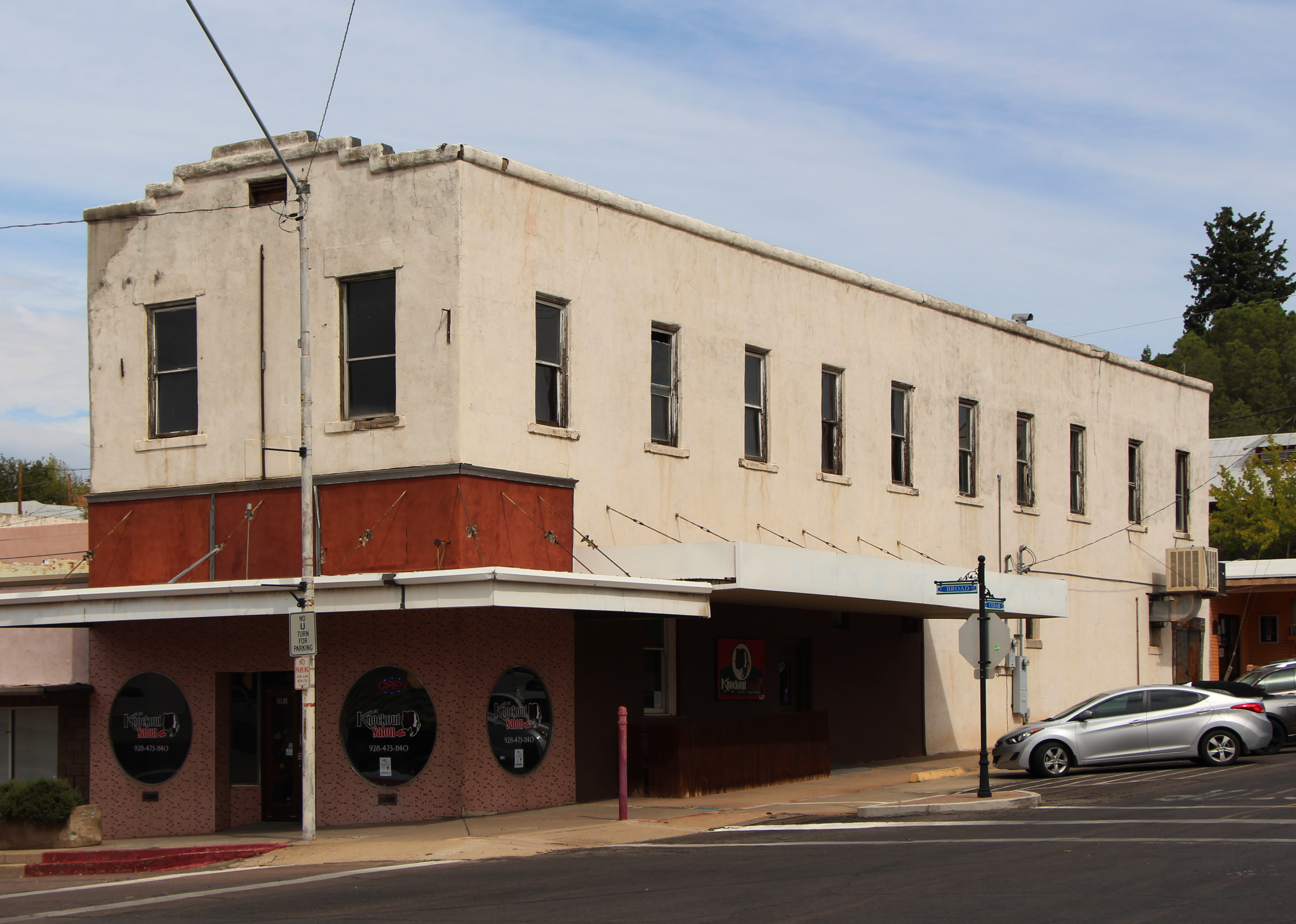 Ardon Hotel/Globe Bakery, northeast corner of Ceder Street and Broad Street, Globe, AZ